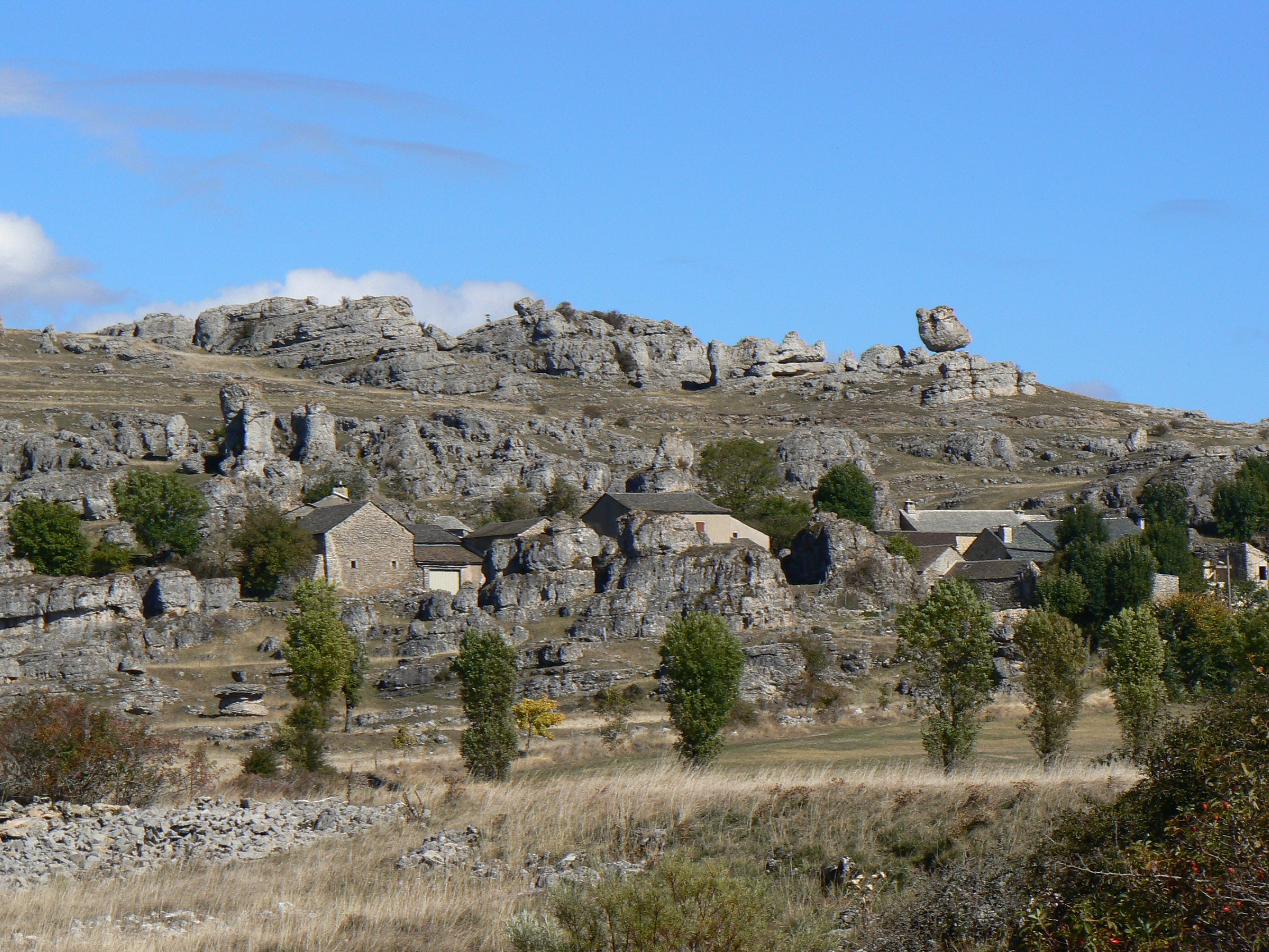 Nîmes-le-Vieux in Lozère (France)